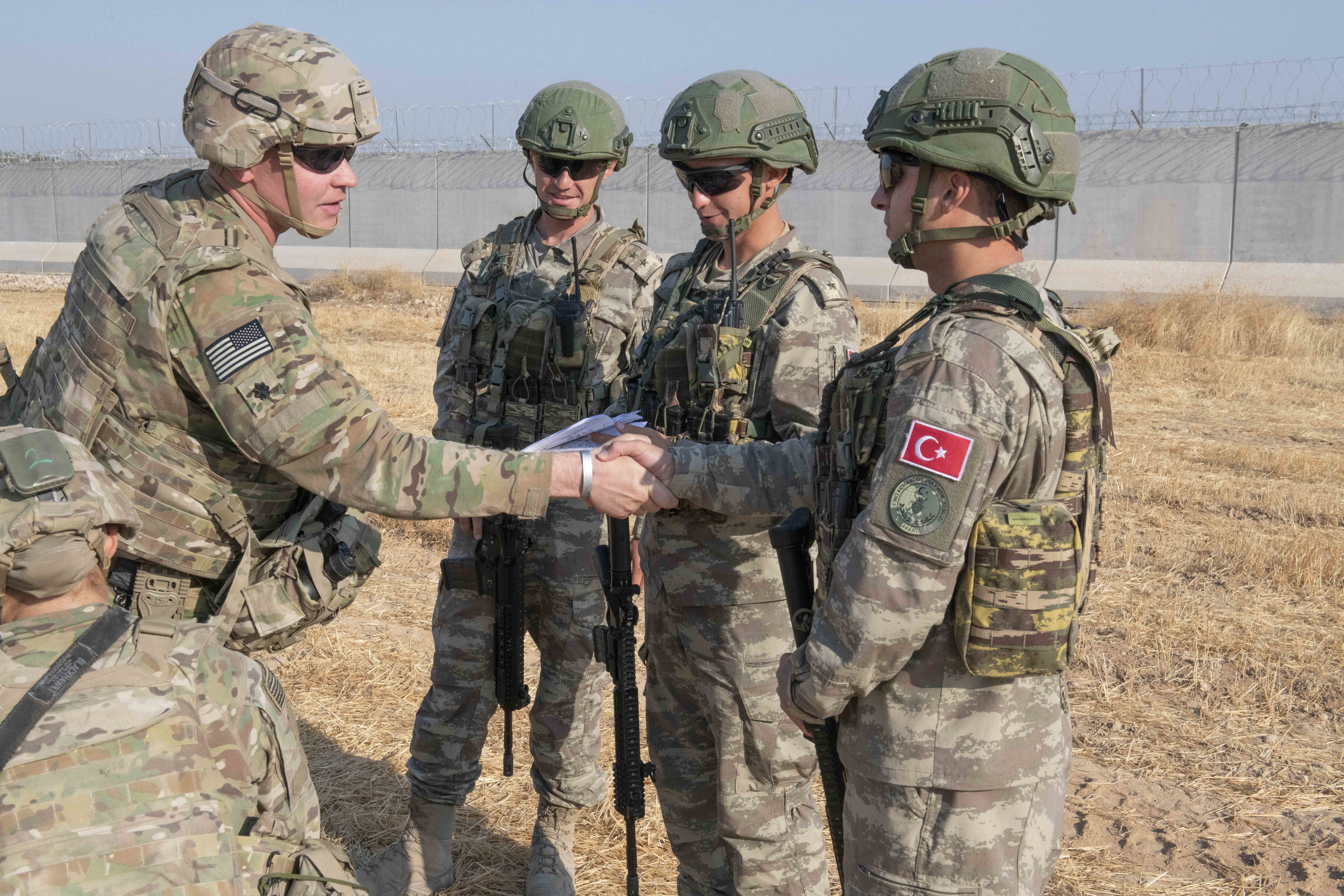 U.S. and Turkish military forces conduct the third ground combined joint patrol inside the security mechanism area in northeast Syria, Oct. 4, 2019. The patrol allowed both militaries to observe first-hand progress on destroyed fortification that are a concern for Turkey. The security mechanism is intended to address Turkey's security concerns, maintain security in northeast Syria so Daesh cannot reemerge, and allow the Coalition to remain focused on achieving the enduring defeat of Daesh. The U.S. is currently executing concrete steps to ensure the border area in northeast Syria remains stable and secure.